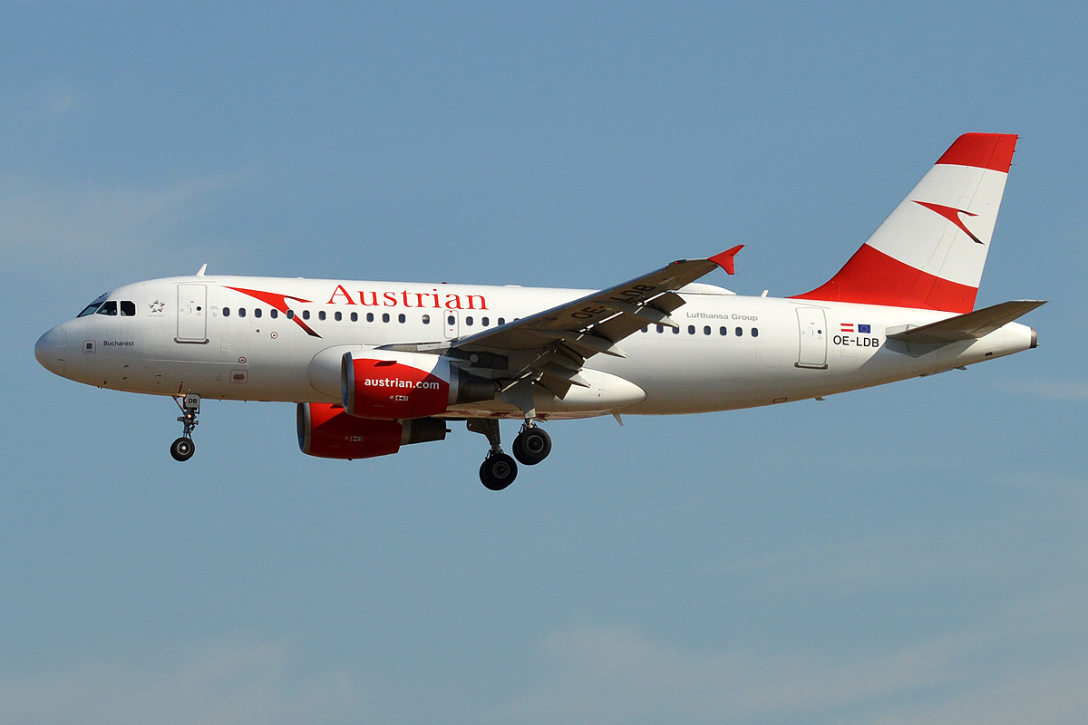 Austrian Airlines, OE-LDB, Airbus A319-112